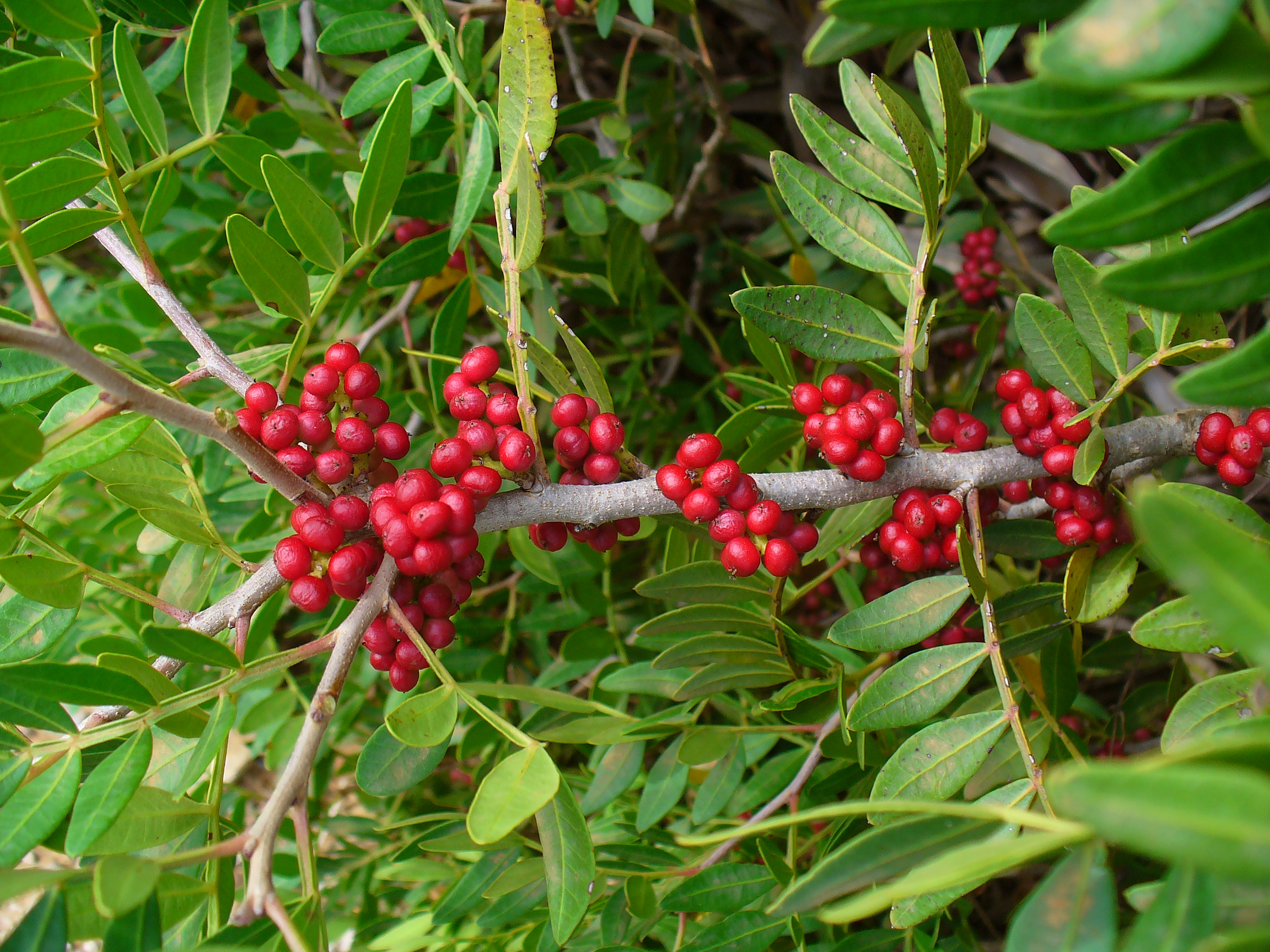 Mastic, fruits; Colònia de Sant Pere, Majorca, Spain.